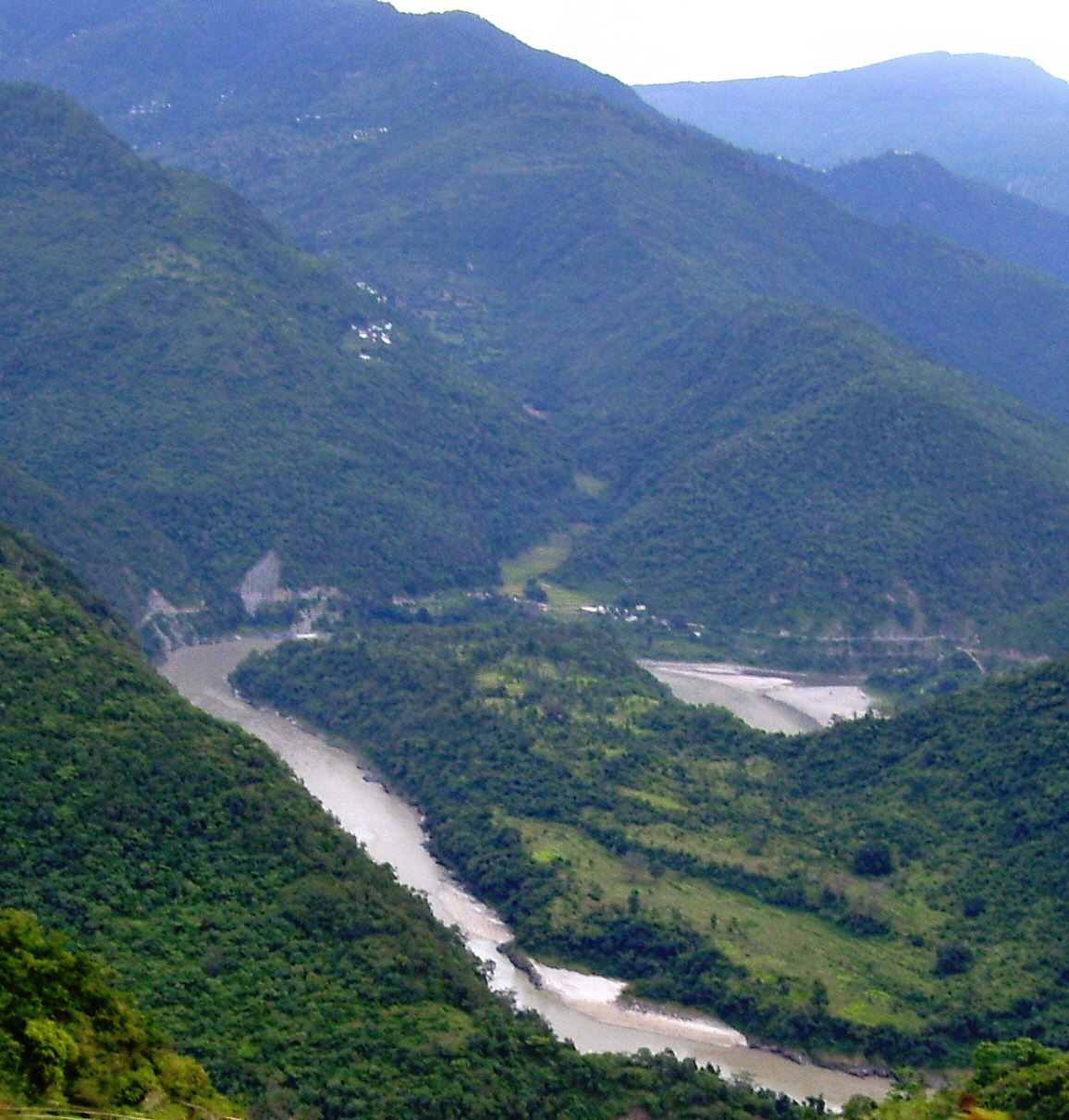 A bend in the Ganges river, Garhwal hills, Uttarakhand, India